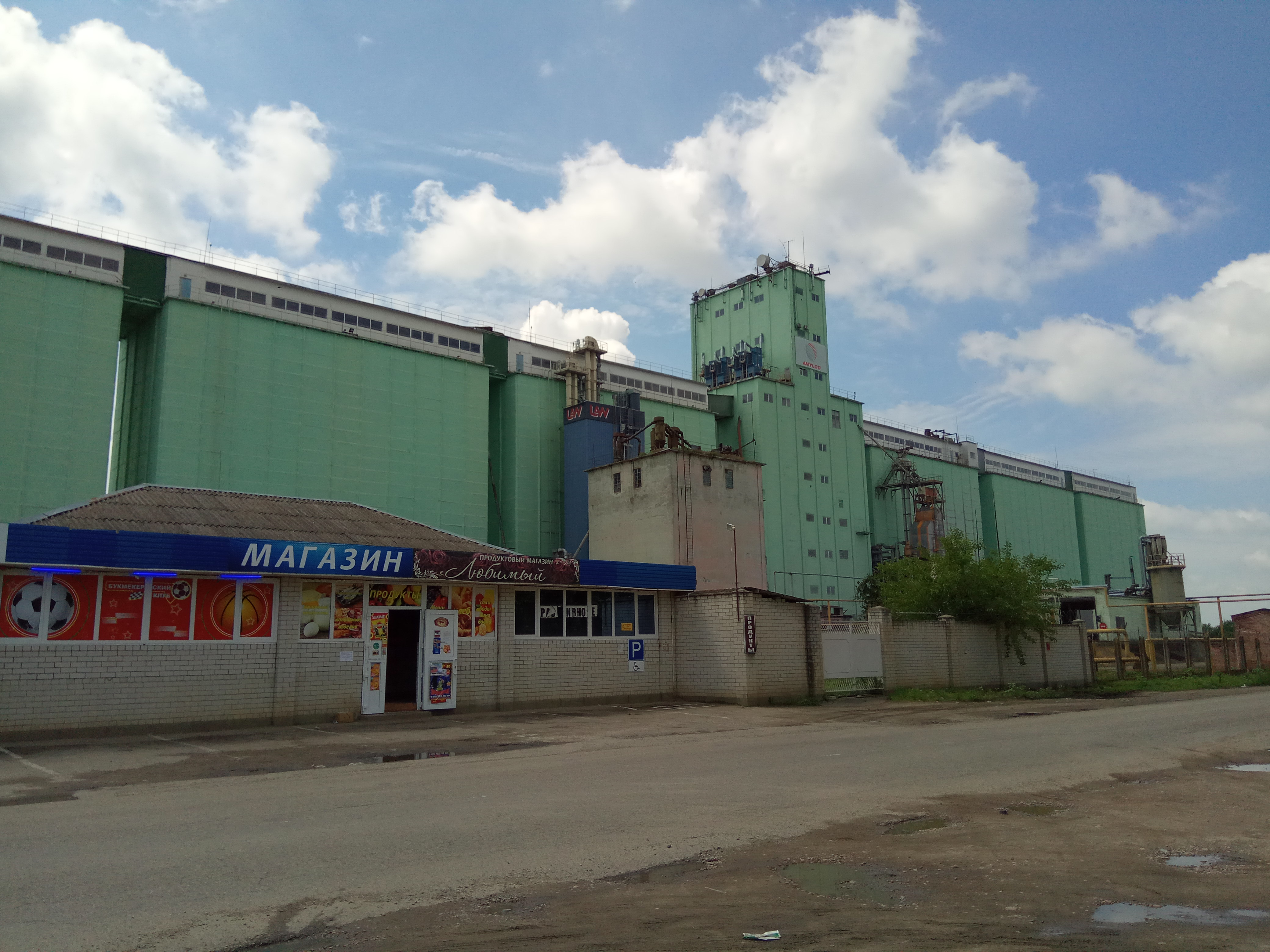 Grain elevator in Tbilisskaya stanitsa, Krasnodar Krai, Russia